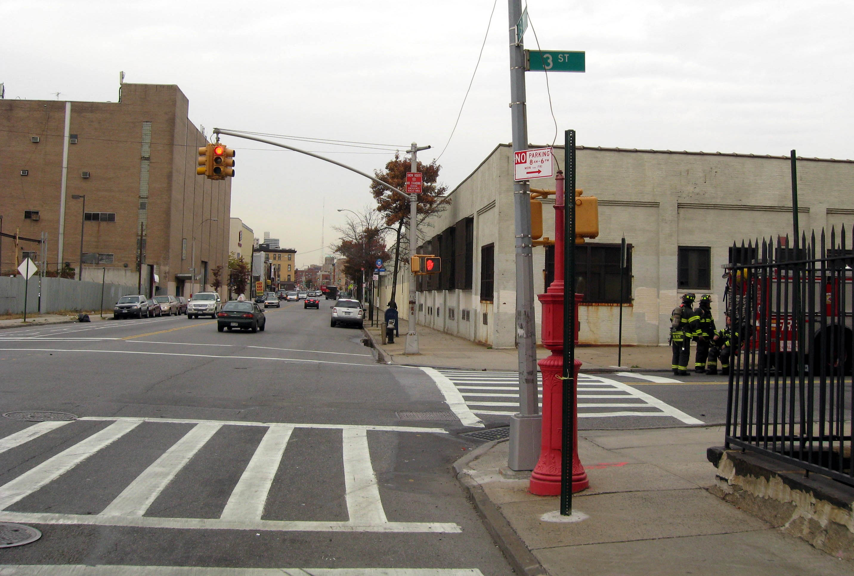 Looking north on Third Avenue (Brooklyn) from 3d Street on a cloudy early afternoon